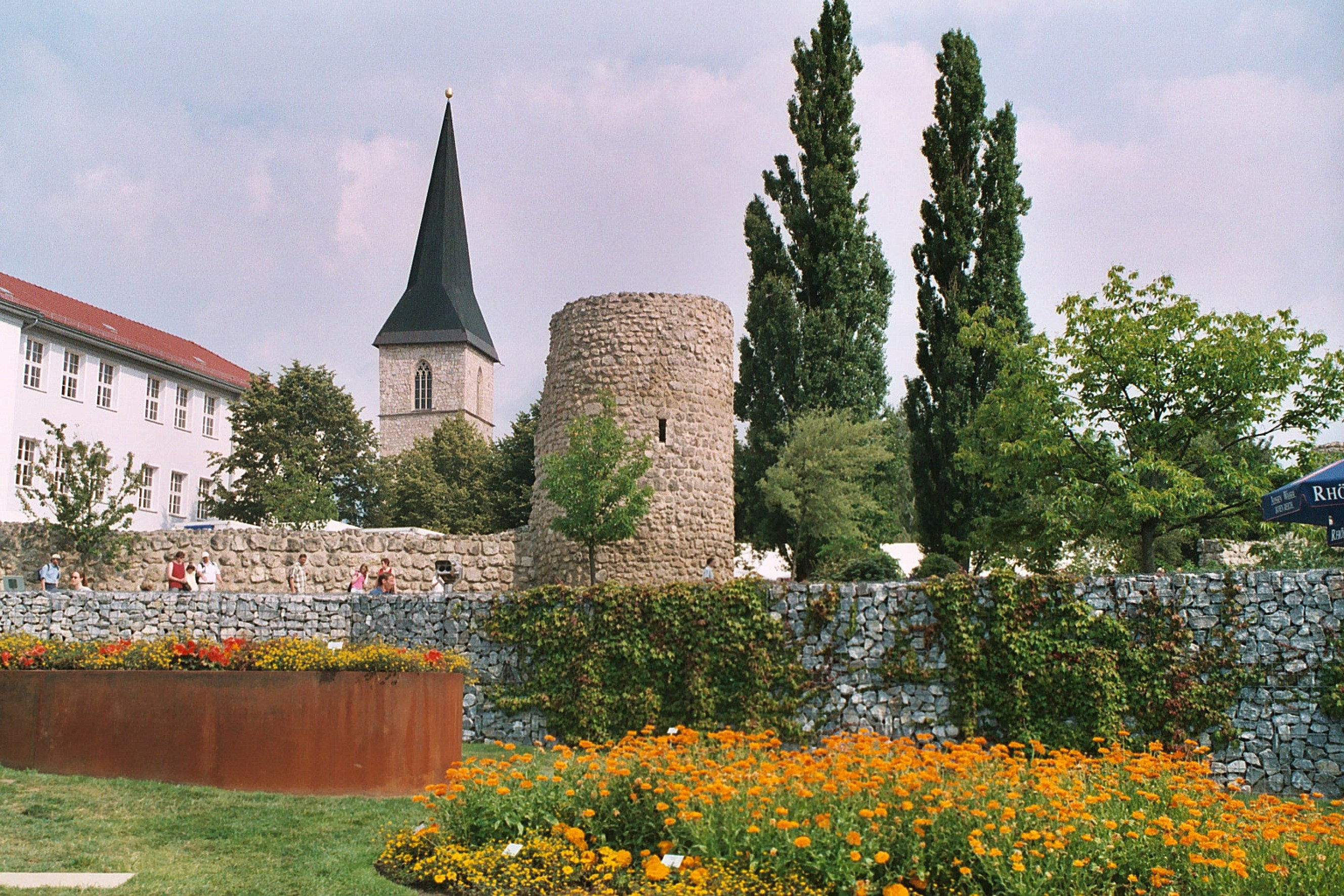 Nordhausen - city walls Petersberg at garden show 2004